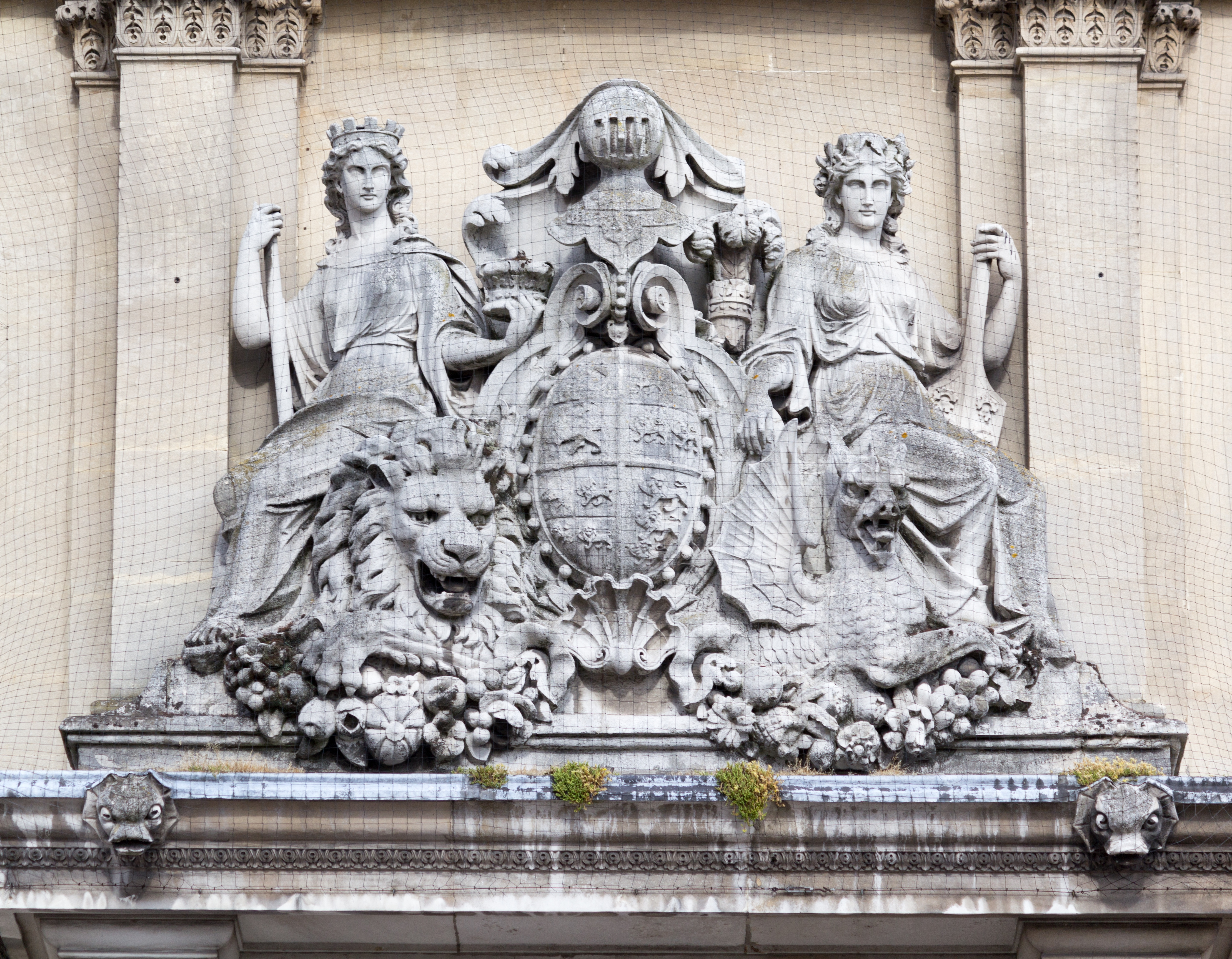 National Provincial Bank, Southampton. Arms of National Provincial Bank, in Southampton. The arms show the Royal Arms of England (Plantagenet) quartering the arms of Llywelyn the Great, Prince of Wales. At dexter a crowned female supporter holding the Crown of England in her left hand, with a Lion of England at her feet. Sinister supporter, uncrowned, with Prince of Wales's Feathers at her right within a coronet, and a Welsh Dragon at her feet. She holds a rudder in her left hand, denoting governance, as the other one appears to do in her right. Garlands of fruit at the bottom denote plentifulness.